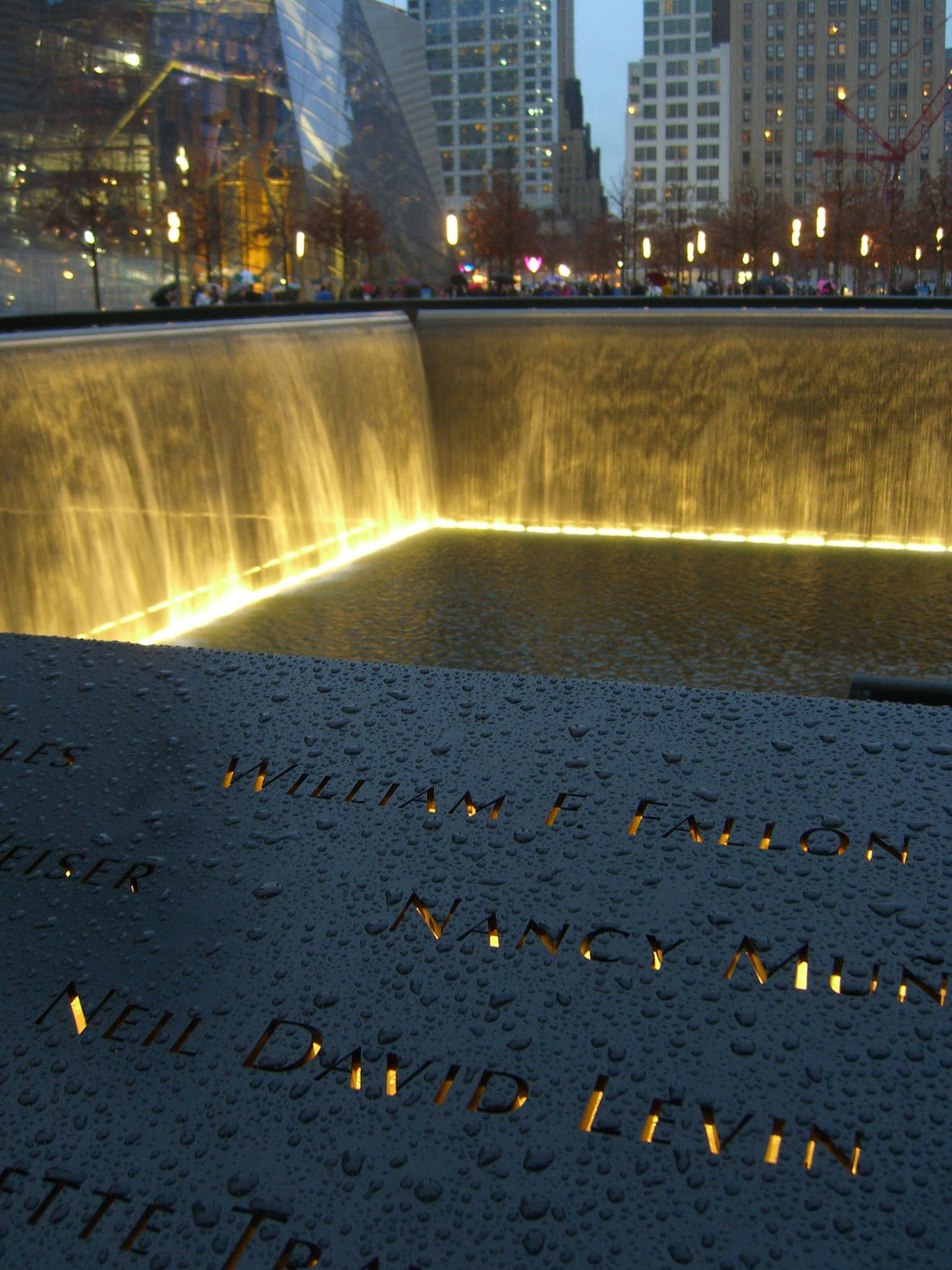 The names of William F. Fallon, Nancy Muñiz and Neil David Levin are seen with those of other 9/11 victims inscribed on bronze panel N-65 of the North Pool of the National September 11 Memorial in Manhattan, as seen on December 6, 2011. This photo was created by Luigi Novi. If you have any questions, you can contact me by sending me an email or User talk:Nightscream